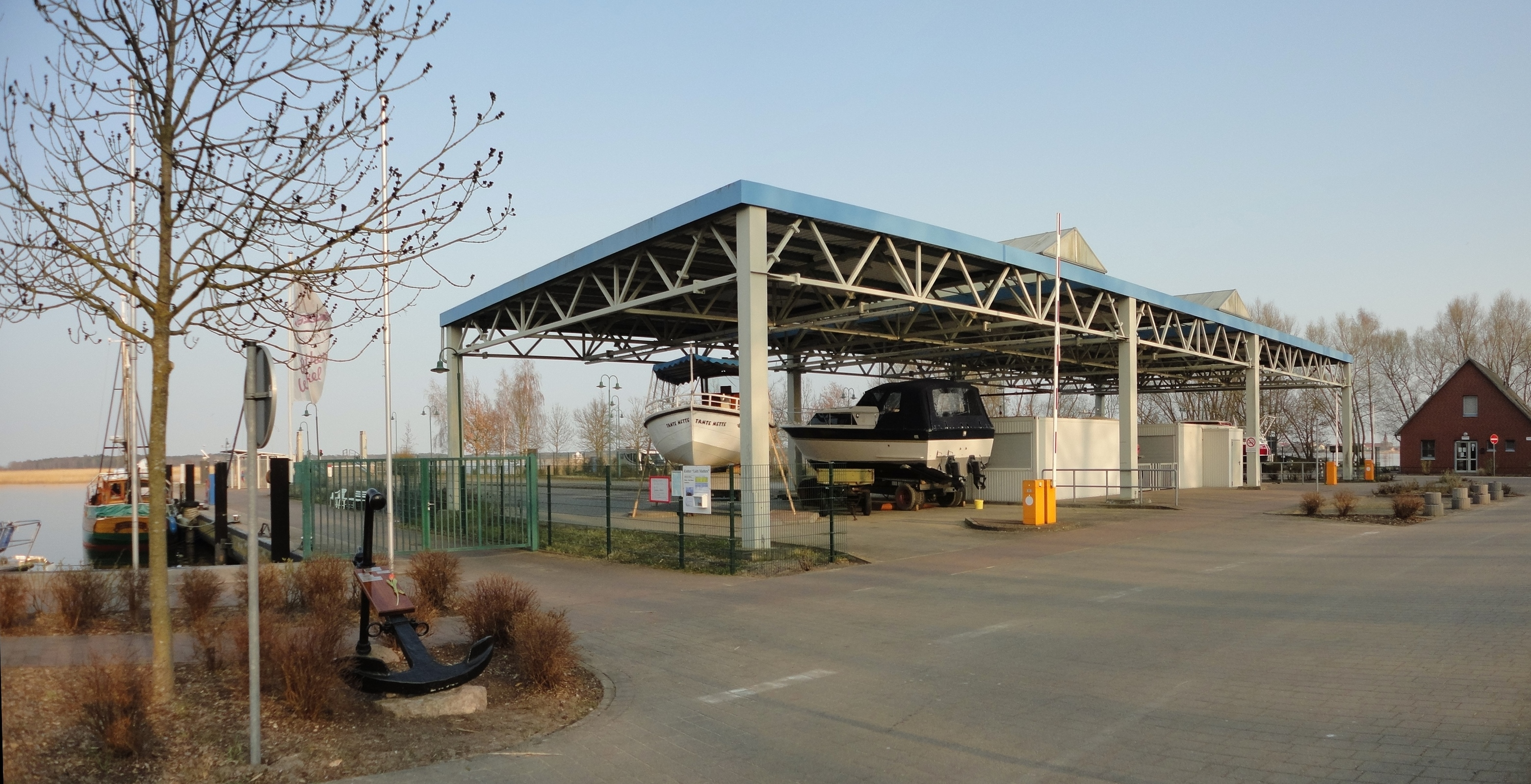 Former customs station of Altwarp, Mecklenburg-Vorpommern state, Germany